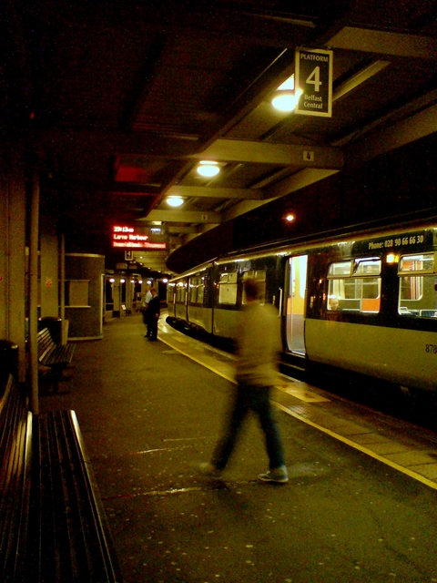 Train departing from Belfast Central Station The 2304 (Saturday) service from Belfast Great Victoria Street to Larne Harbour just about to depart (late - was due to leave here at 2312 but the clock is showing 2313).